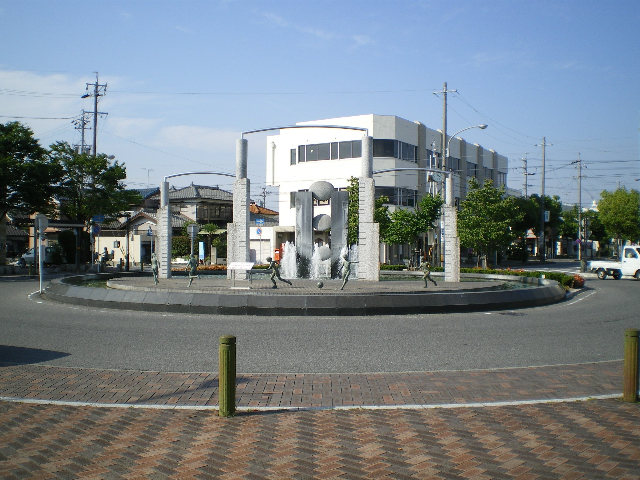 Nagoya Railroad Nagoya Main Line Fujimatsu Station Plaza